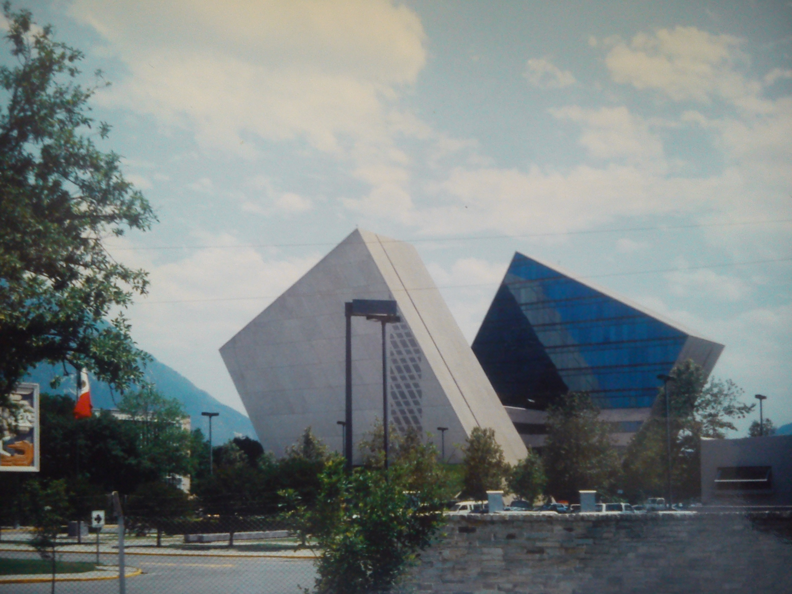 "The Napkin Holder", in Monterrey, Nuevo León, México